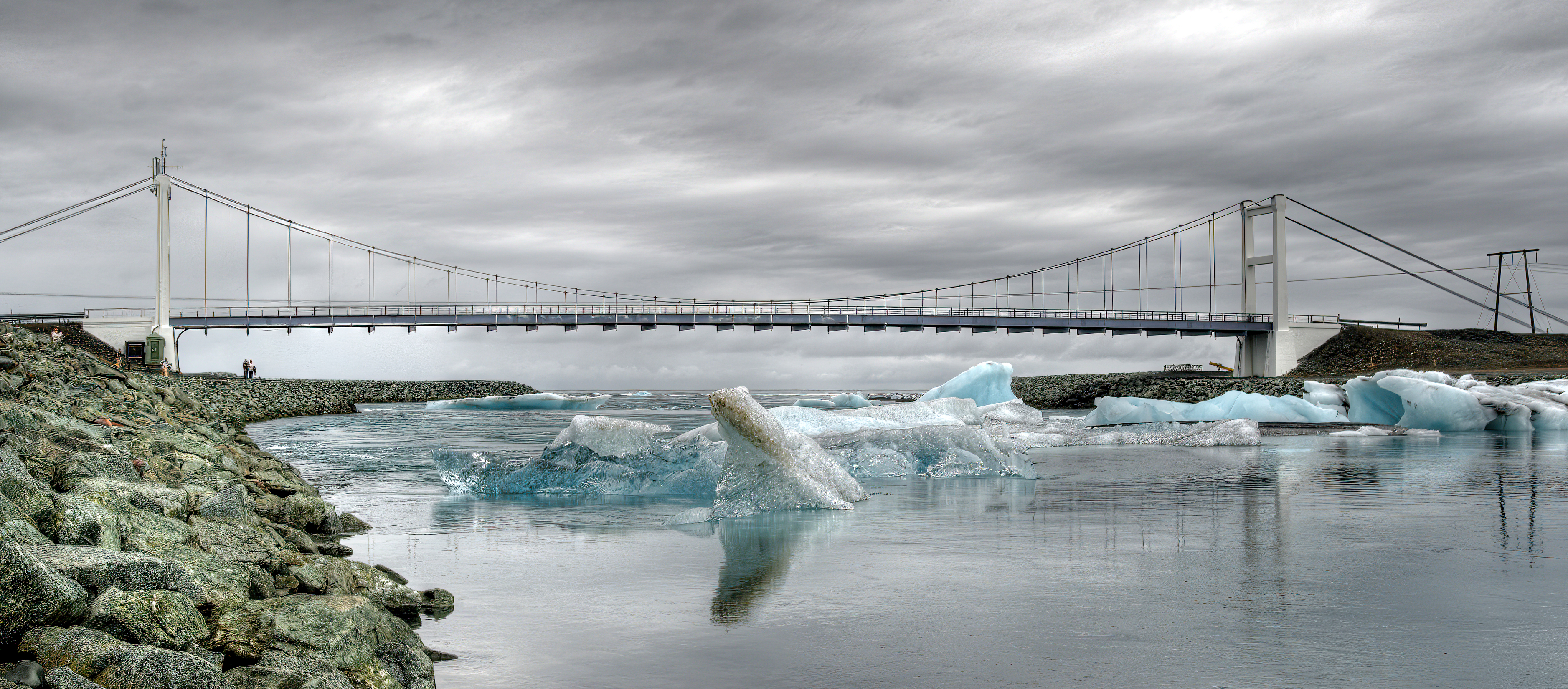 Bridge over Jökulsá á Breiðamerkursandi at Jökulsárlón, Iceland